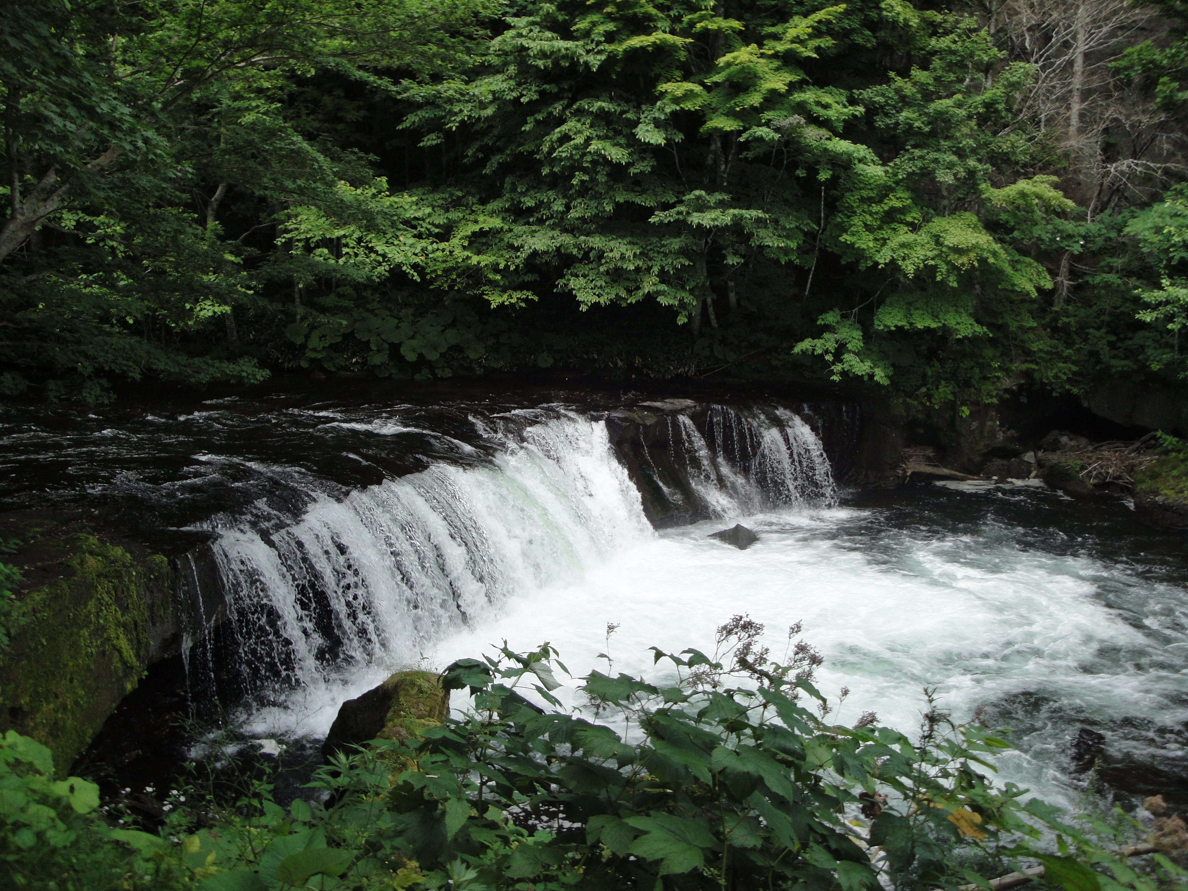 Sakura Falls